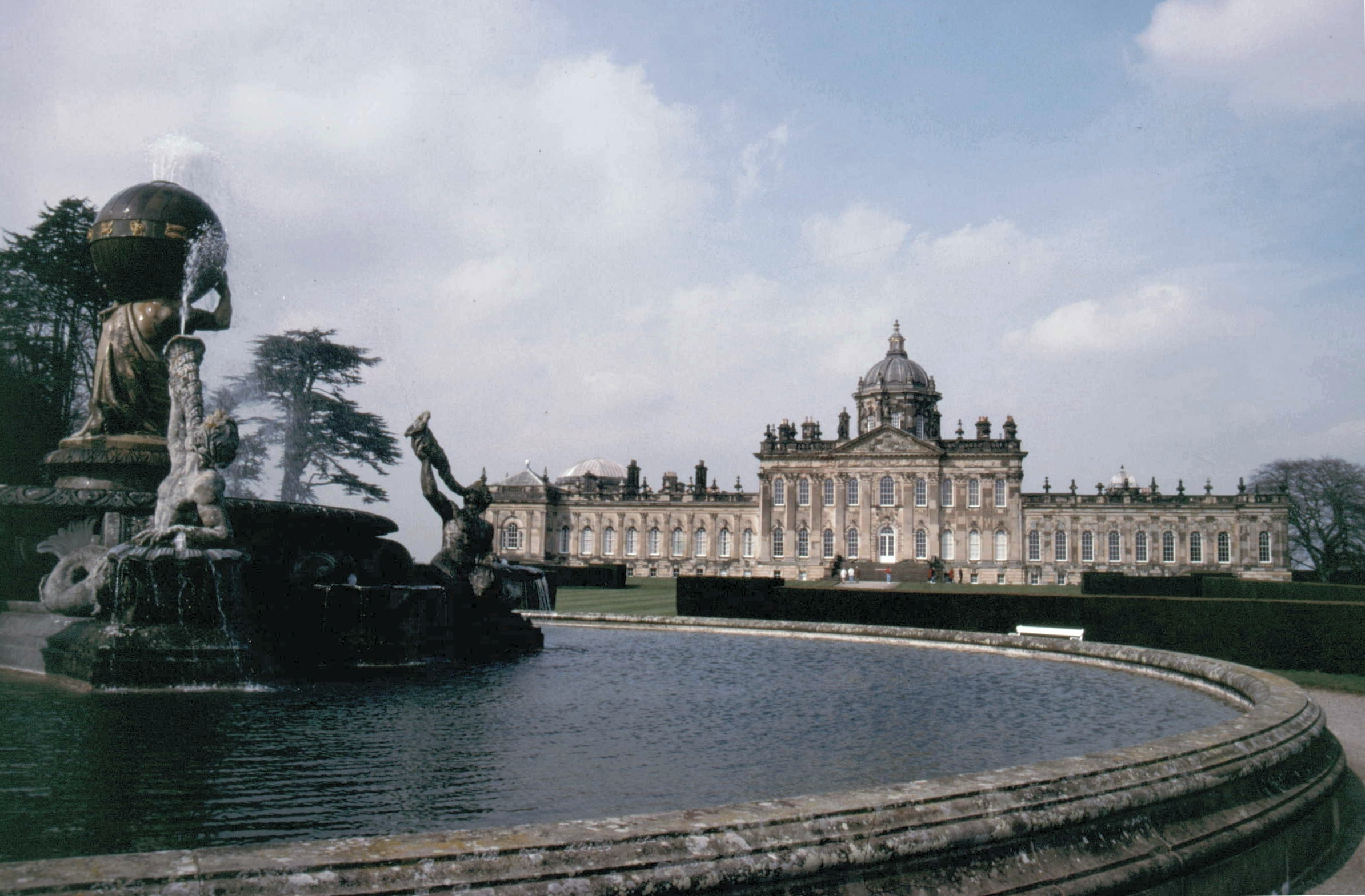 Castle Howard near York